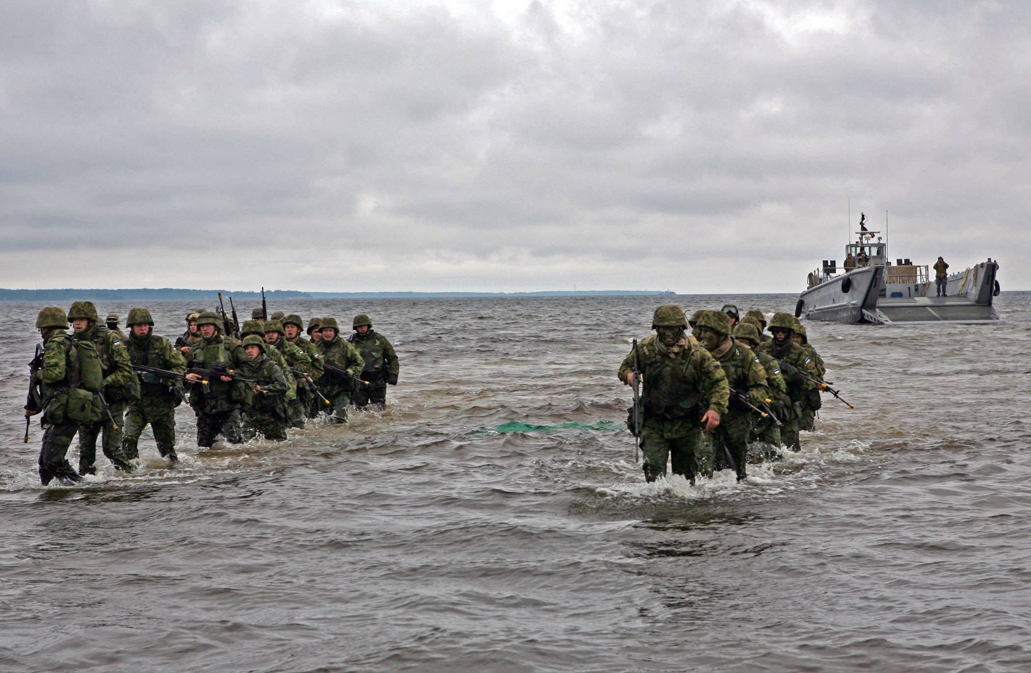 LOSKA, Estonia (June 15, 2010) Estonian soldiers wade ashore during a combined U.S. and Estonia amphibious assault training exercise during Baltic Operations (BALTOPS) 2010. BALTOPS is an annual exercise to improve interoperability and cooperation among regional allies by conducting realistic training with the 12 participating nations. (U.S. Marine Corps photo by Sgt. Rocco DeFilippis/Released)